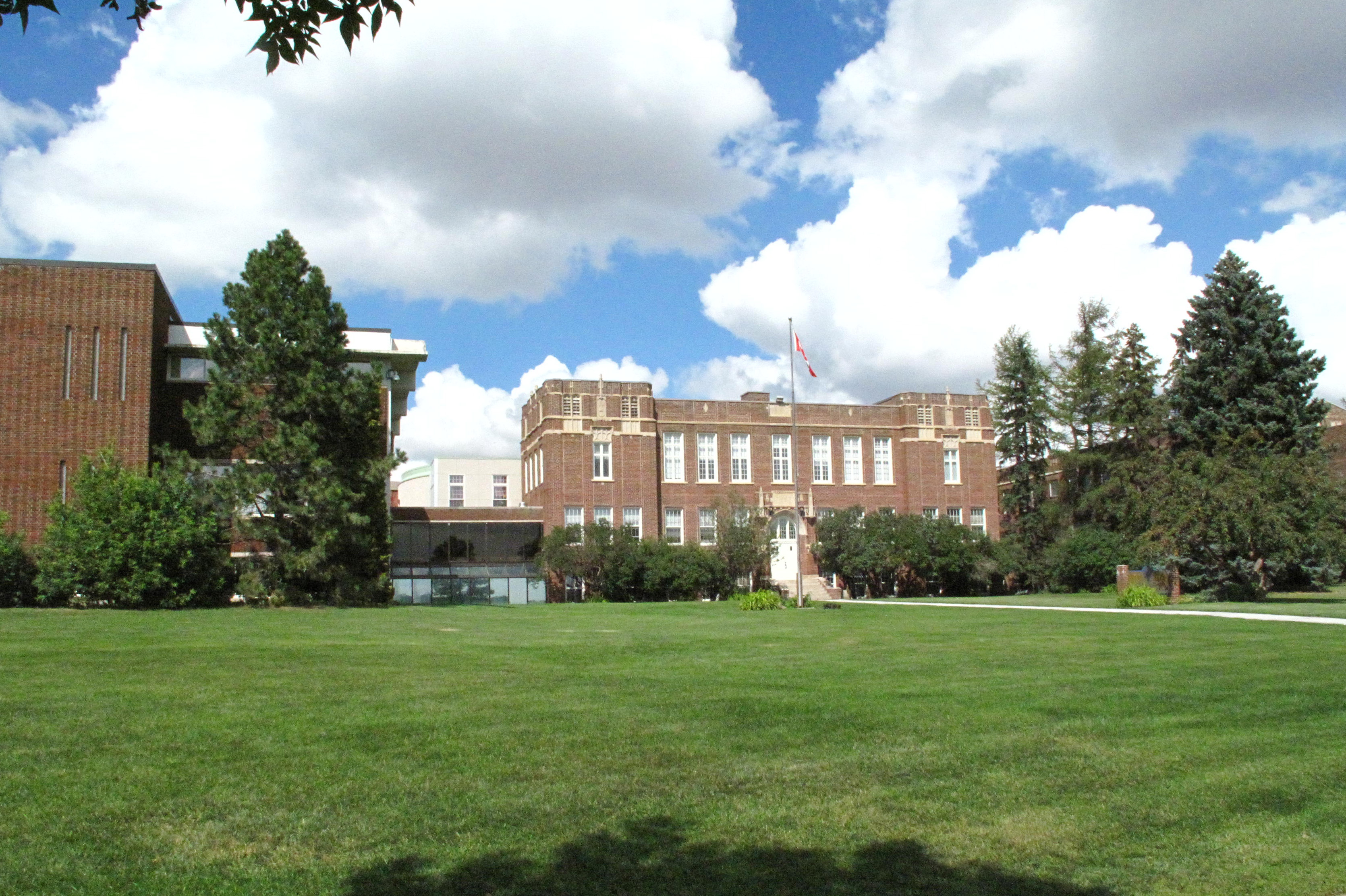 Wide angle photograph of Concordia University of Edmonton (Concordia University College of Alberta)